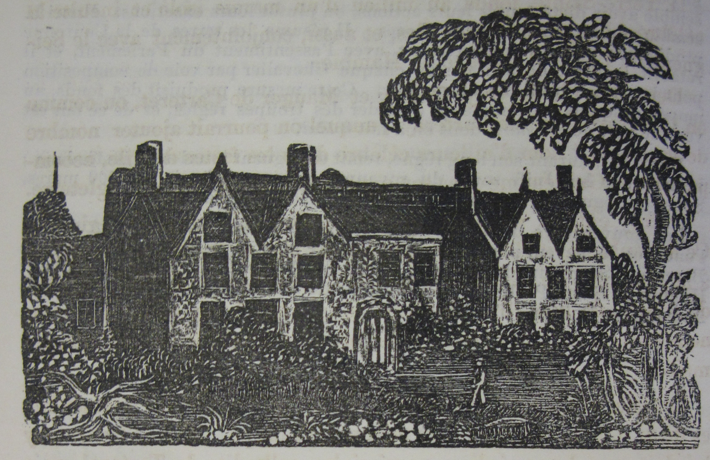 This work is in the public domain in its country of origin and other countries and areas where the copyright term is the author's life plus 70 years or less. You must also include a United States public domain tag to indicate why this work is in the public domain in the United States. Note that a few countries have copyright terms longer than 70 years: Mexico has 100 years, Jamaica has 95 years, Colombia has 80 years, and Guatemala and Samoa have 75 years. This image may not be in the public domain in these countries, which moreover do not implement the rule of the shorter term. Côte d'Ivoire has a general copyright term of 99 years and Honduras has 75 years, but they do implement the rule of the shorter term. Copyright may extend on works created by French who died for France in World War II (more information), Russians who served in the Eastern Front of World War II (known as the Great Patriotic War in Russia) and posthumously rehabilitated victims of Soviet repressions (more information). This file has been identified as being free of known restrictions under copyright law, including all related and neighboring rights.